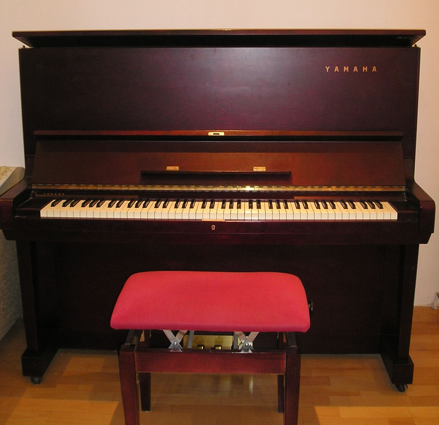 This is a picture of my piano